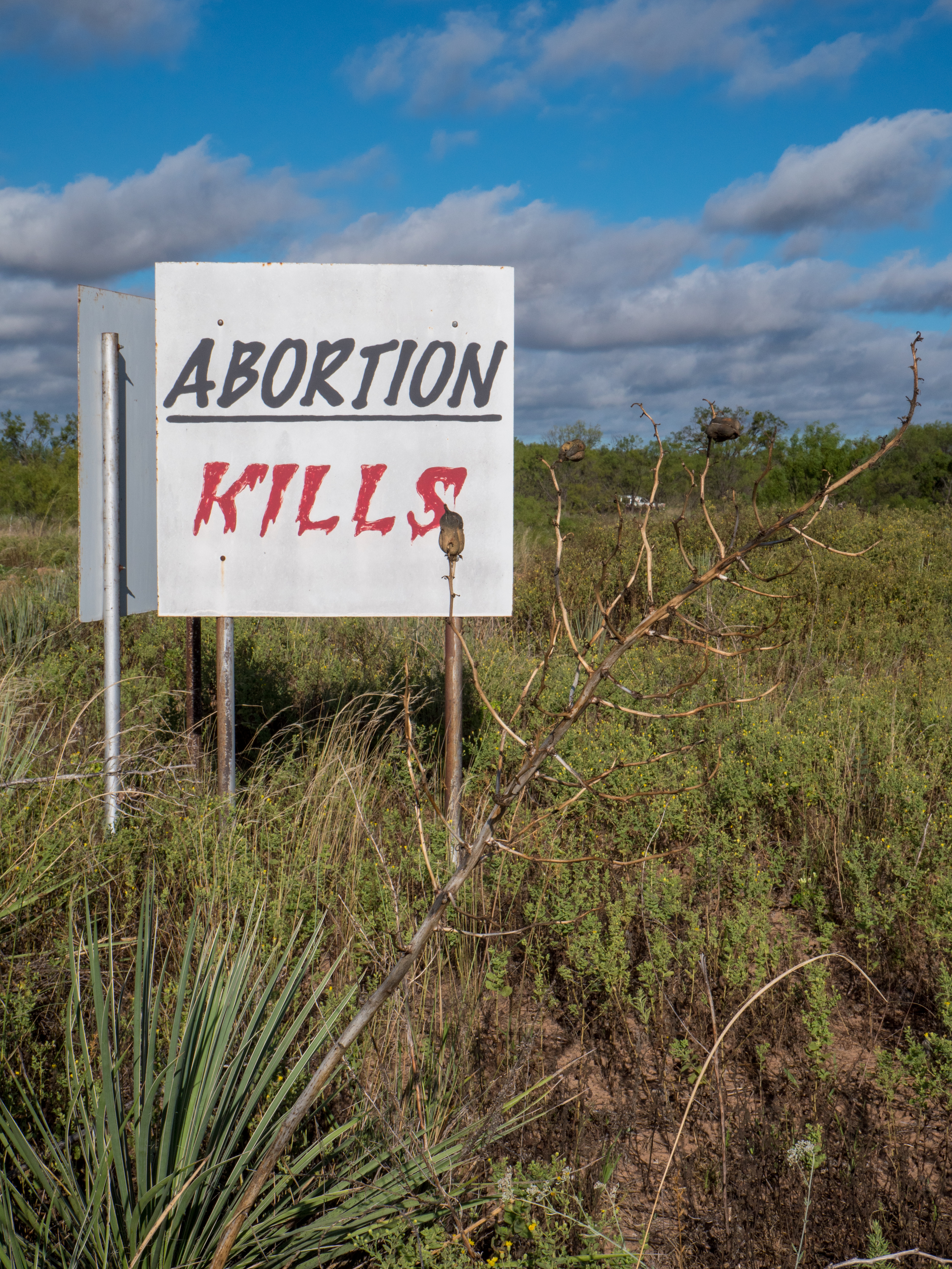 Spotted roadside in Texas